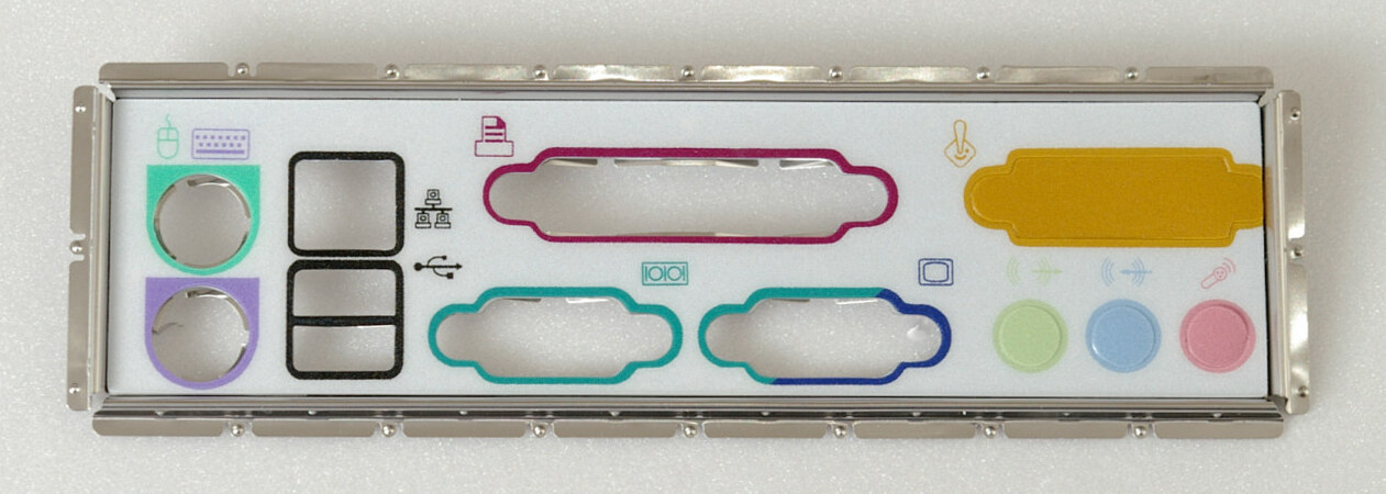 A typical ATX IO shield